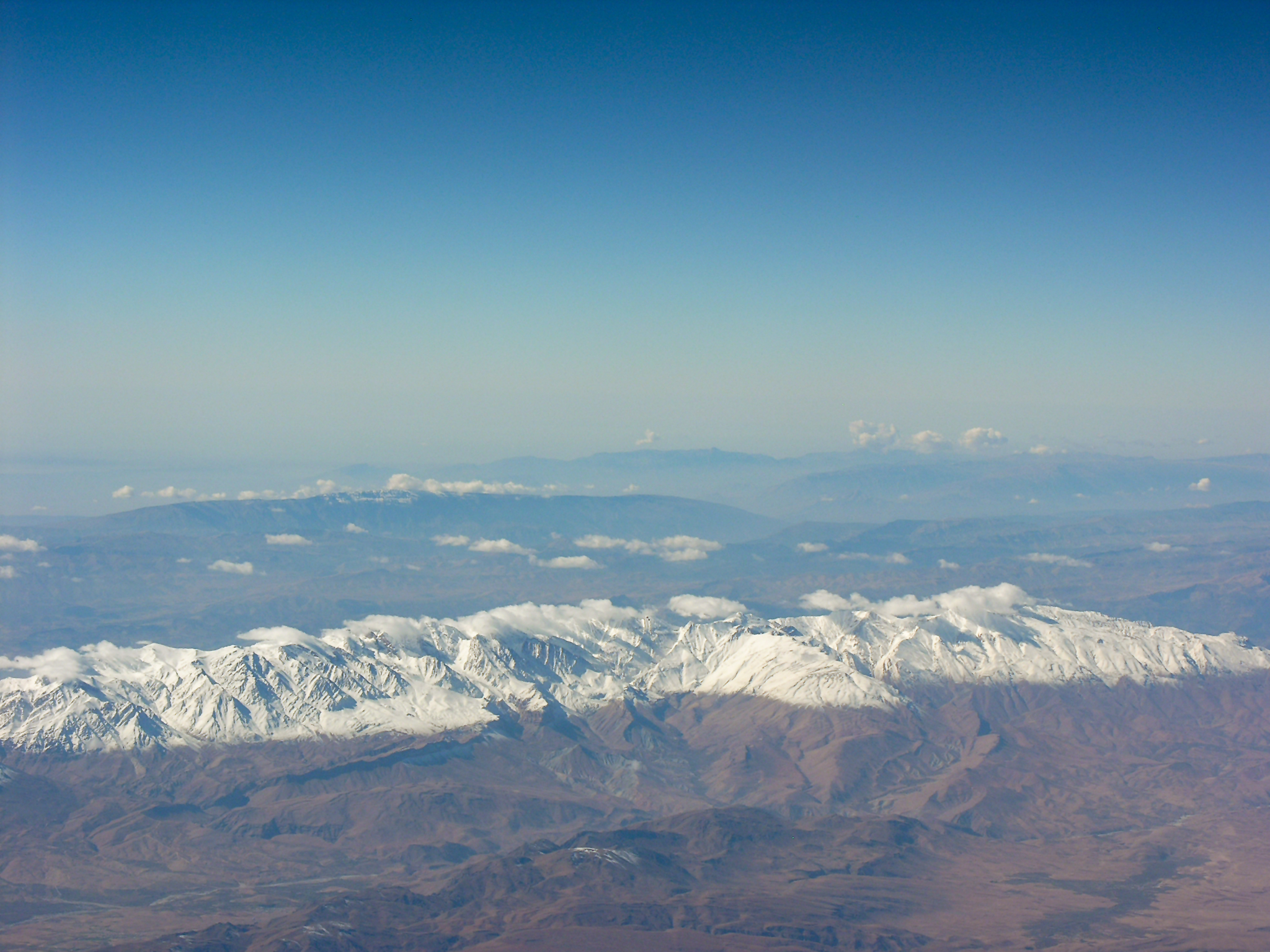 Iran, aerial views of Iran during a flight from IKA to DXB